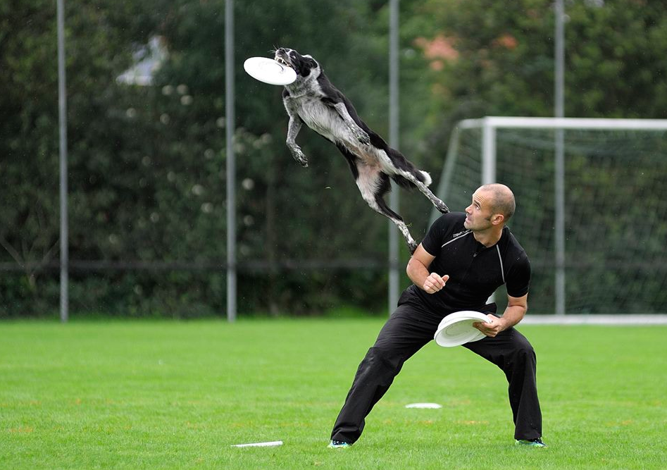 Adrian Stoica and Rory: World Champions UFO 2014; European Champions AWI, UFO and Skyhoundz 2014